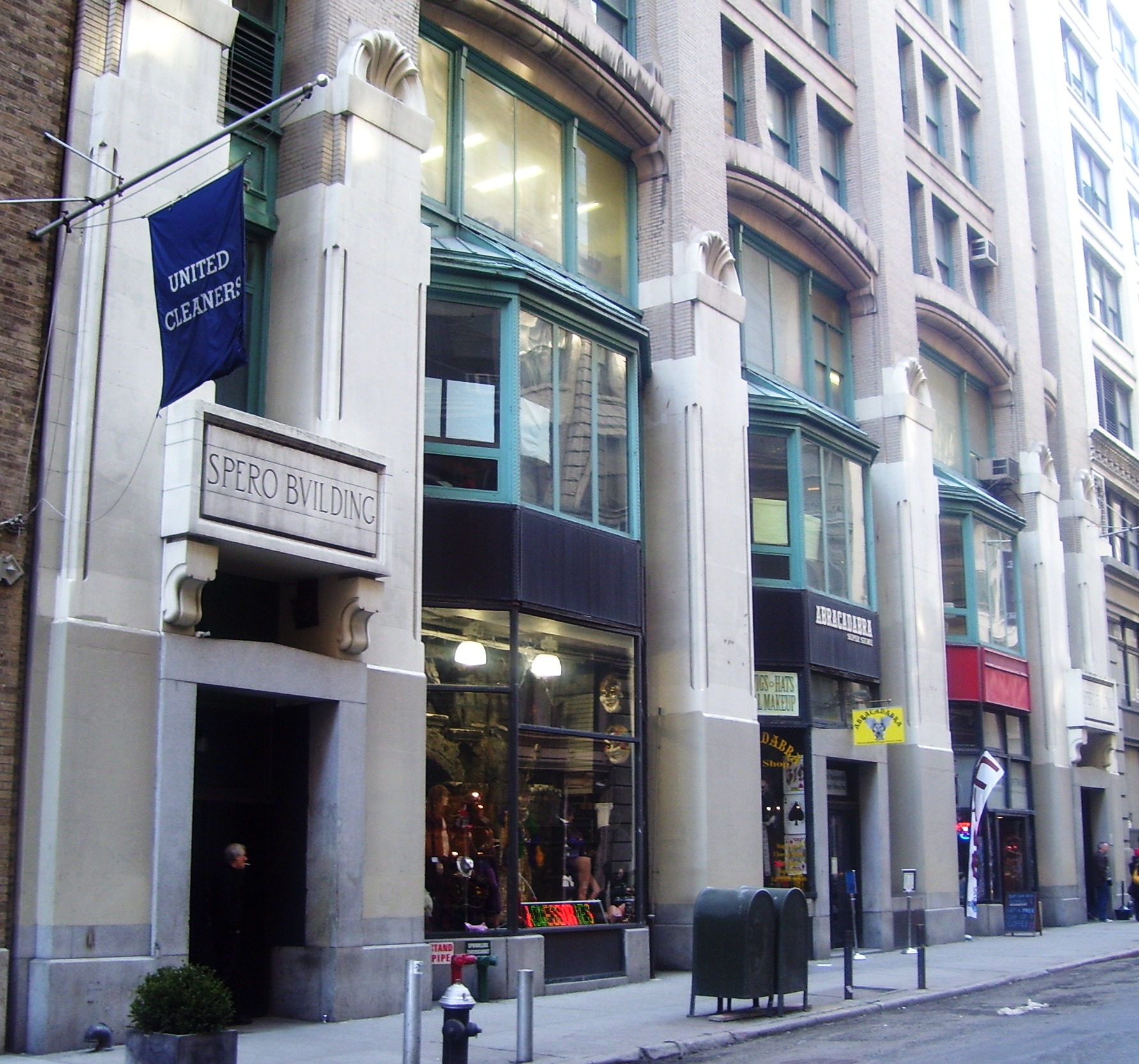 The street facade of the Spero Building at 19 West 21st Street between Fifth Avenue and the Avenue of the Americas (Sixth Avenue) in the Flatiron District of Manhattan, New York City. The Art Nouveau loft building was built in 1907-1908 and designed by Robert Kahn. (Source: AIA Guide to NYC (4th ed.))